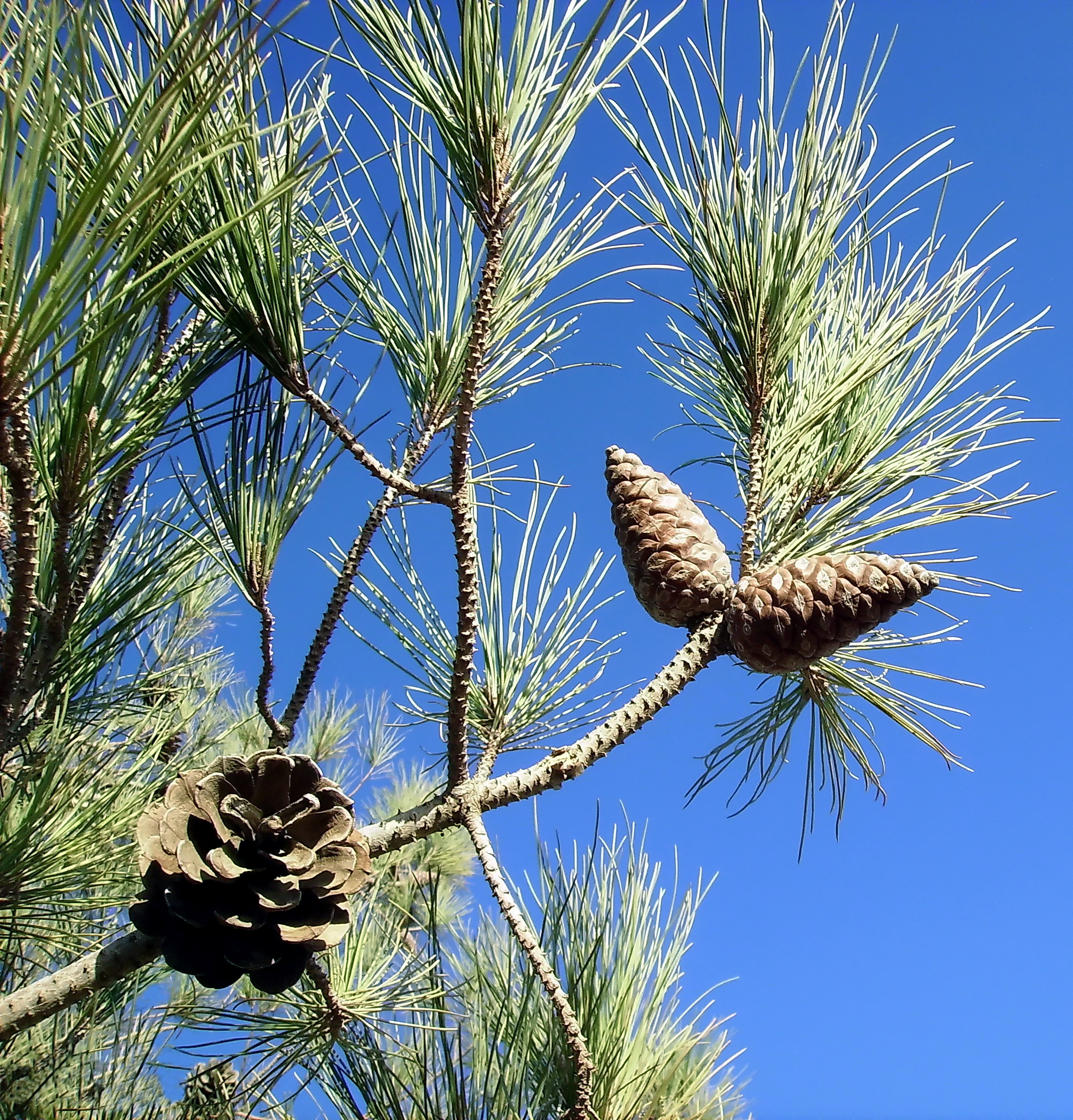 Pinus brutia subsp. brutia